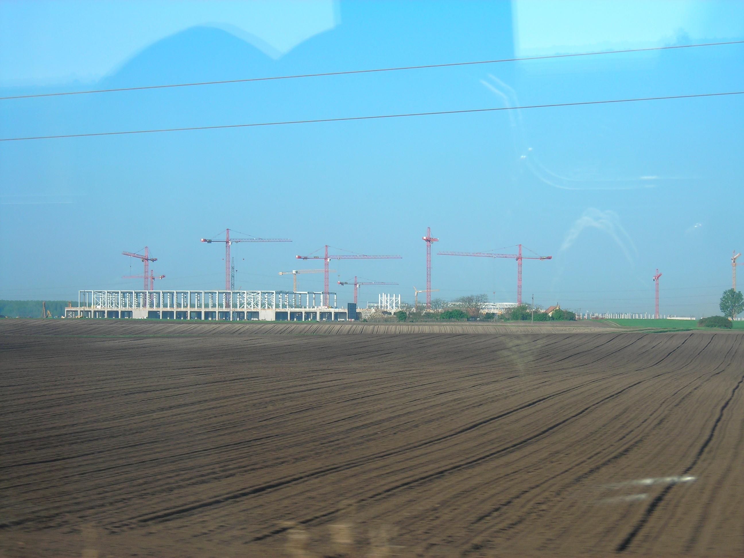 Mercedes factory under construction in Kecskemét